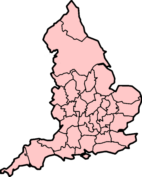 Map of the English historic counties as it appears in Domesday Book.